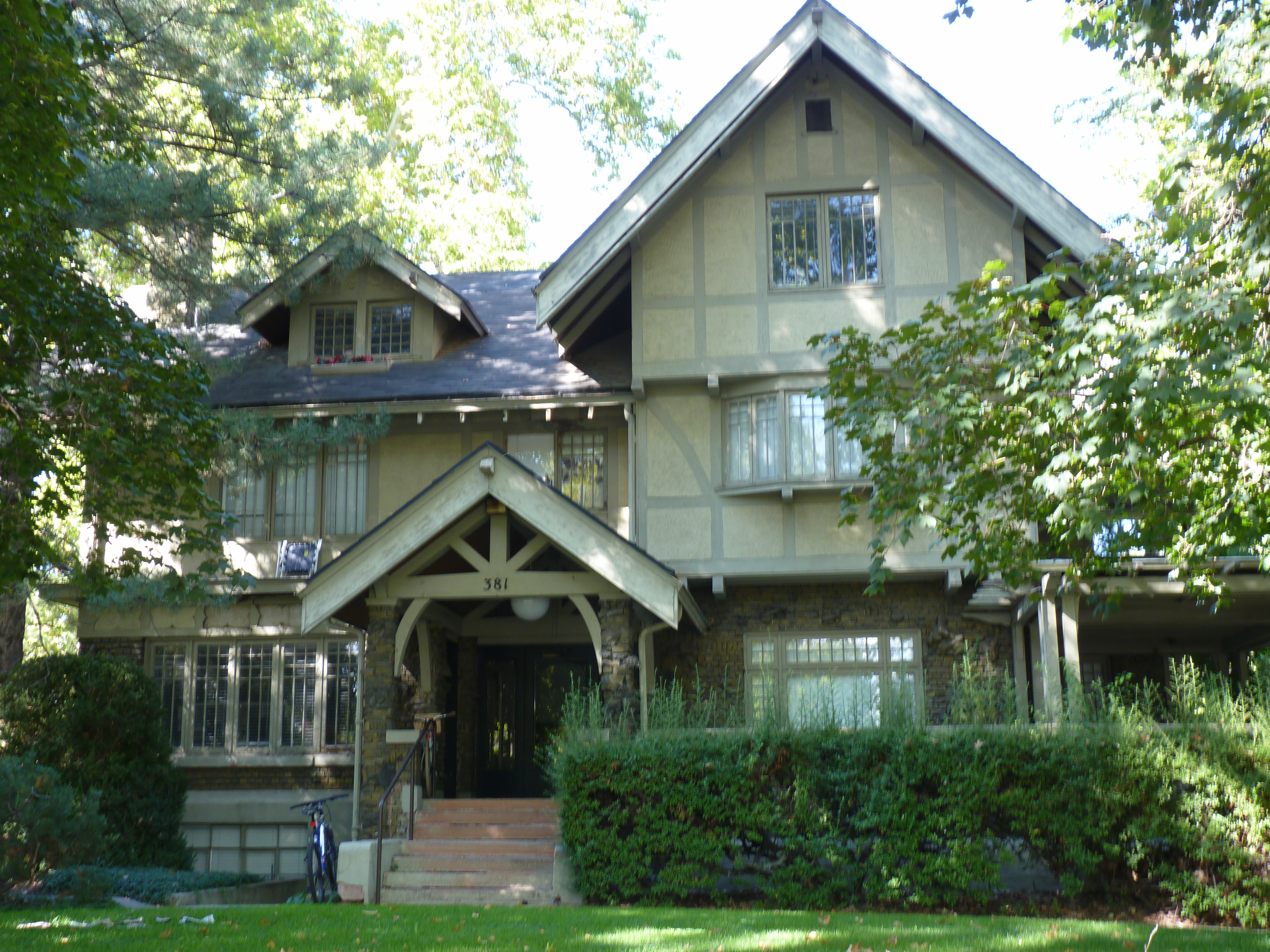 Located in Provo, Utah, the Knight-Mangum House is listed on both the NRHP and the Provo City Historic Landmarks Registry.